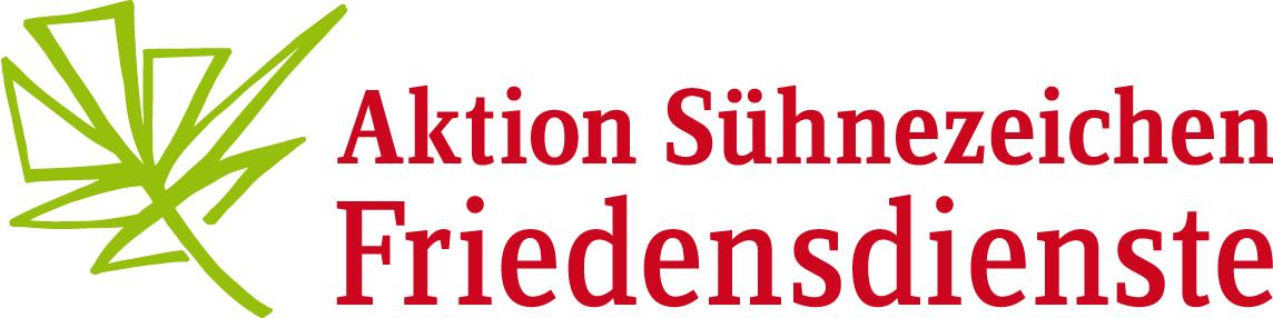 ASF Logo